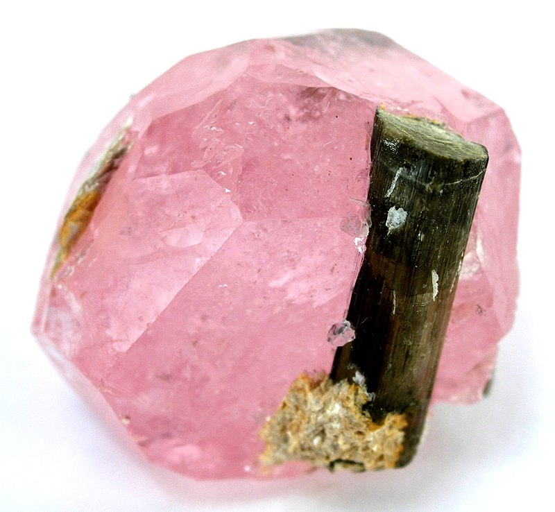 Beryl Locality: Darra-i-Pech (Pech; Peech; Darra-e-Pech) Pegmatite Field, Nangarhar (Ningarhar) Province, Afghanistan (Locality at ) Size: miniature, 3.6 x 3.3 x 3.0 cm Morganite with Tourmaline A stunning specimen that looks like nothing so much as dark tourmalines stuck in a wad of hot pink bubblegum. The color here is maximal for an Afghani morganite, and is much more intense, in person. The crystal is translucent, with some transparent areas, but universally bright and lustrous. The morganite is a floater, complete-all-around and fully terminated. Ex. Laura and Stevia Thompson Collection.